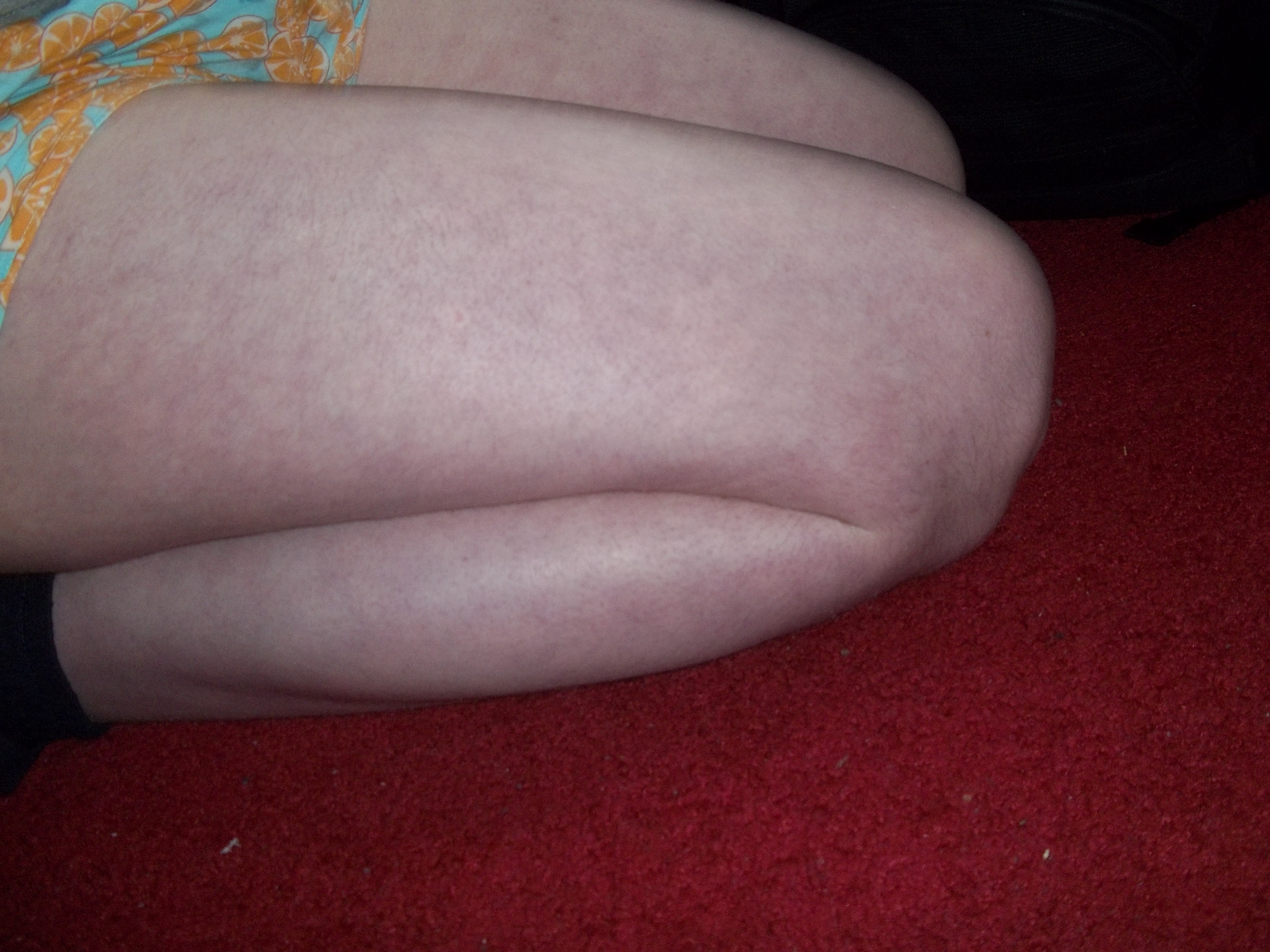 Buttocks resting on ankles.